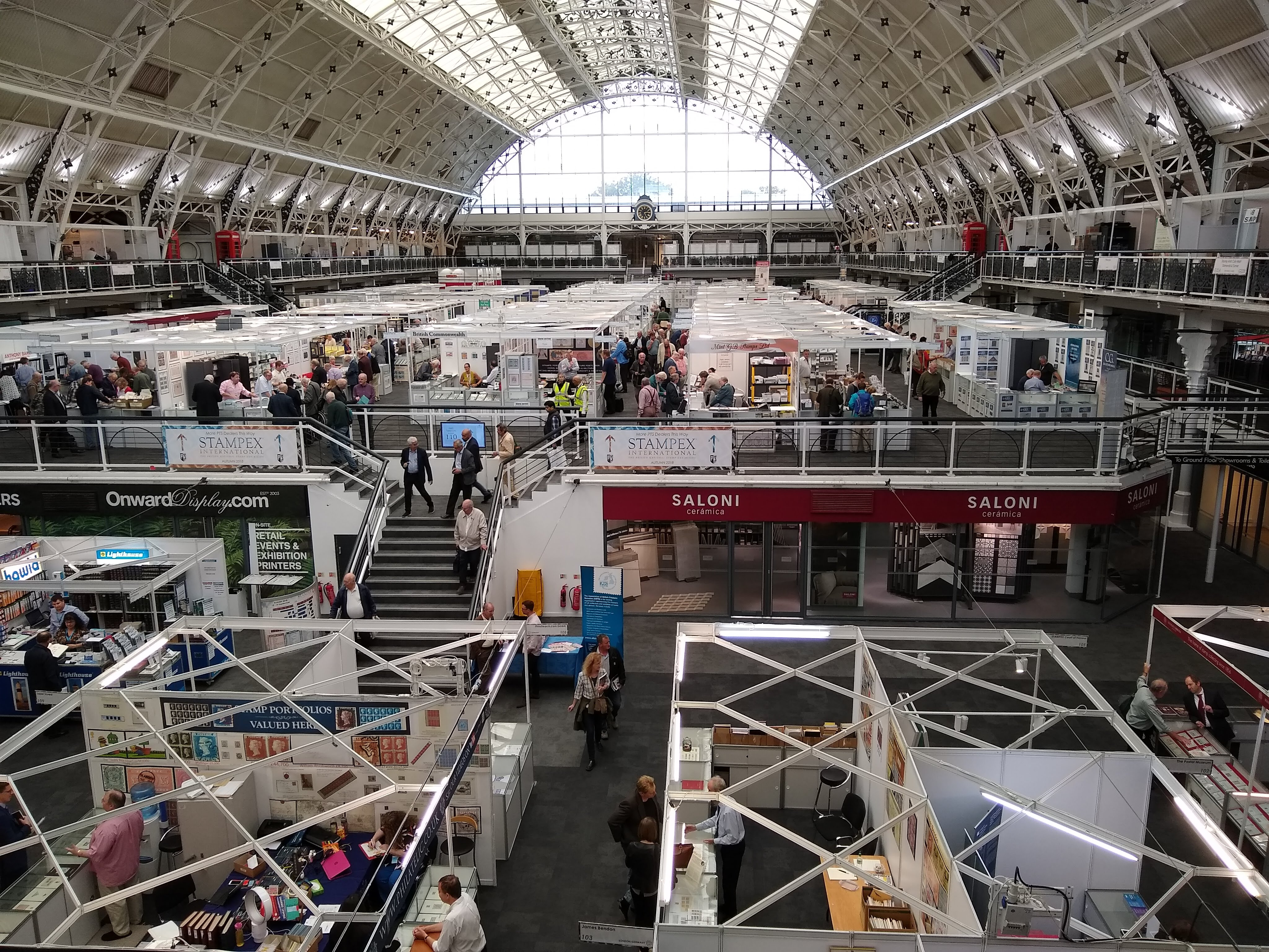 Autumn Stampex 2018